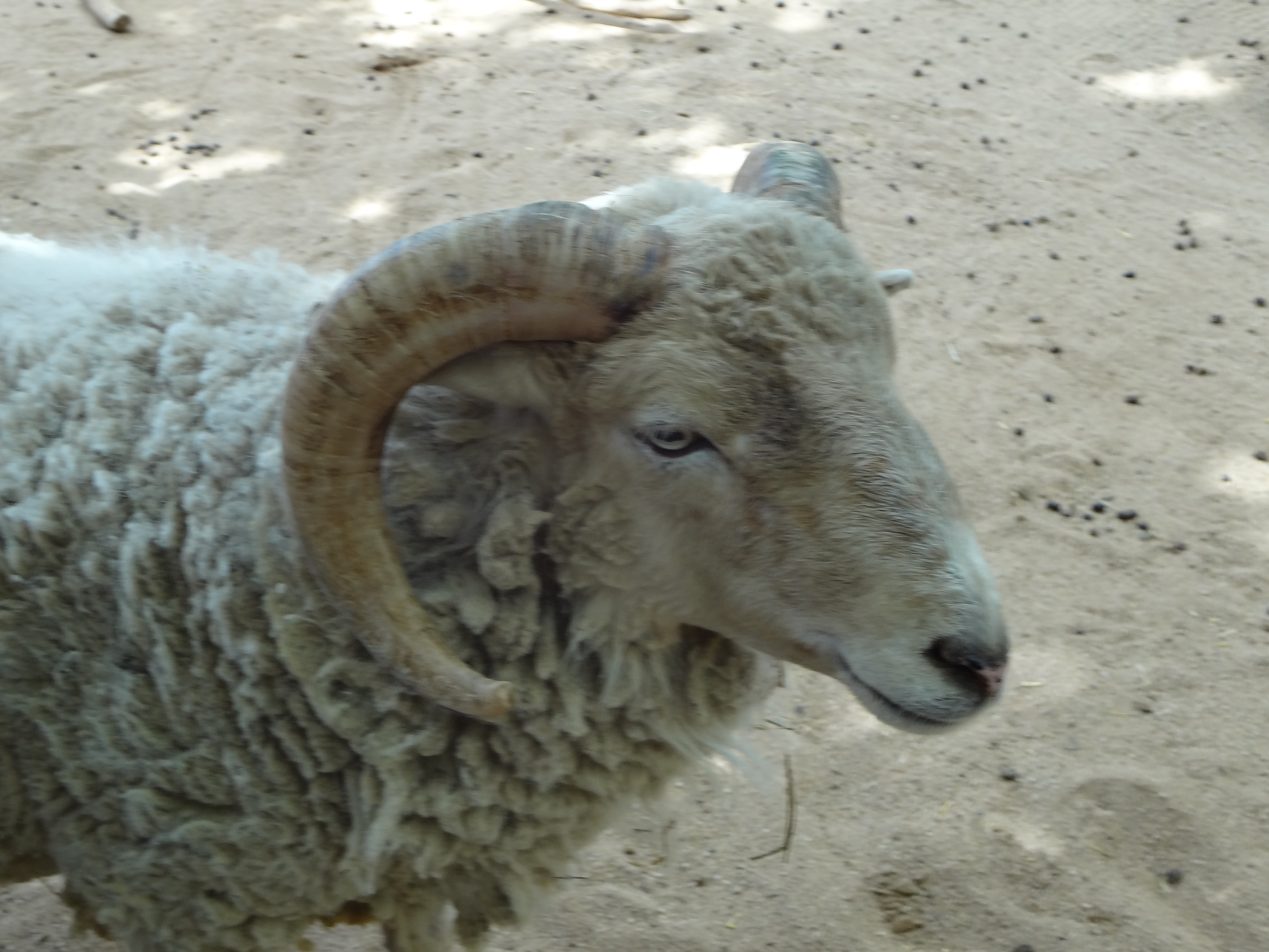 Faunia in Madrid, Spain